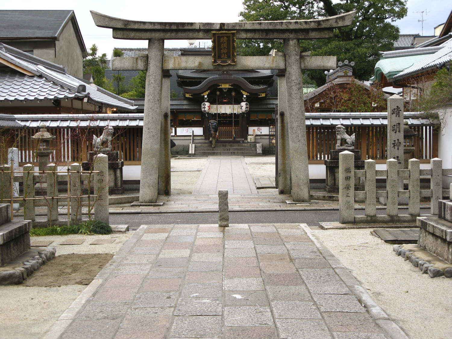 Seimei Shrine 晴明神社 devoted to Abe no Seimei. Kyoto, Japan. Torii and precincts